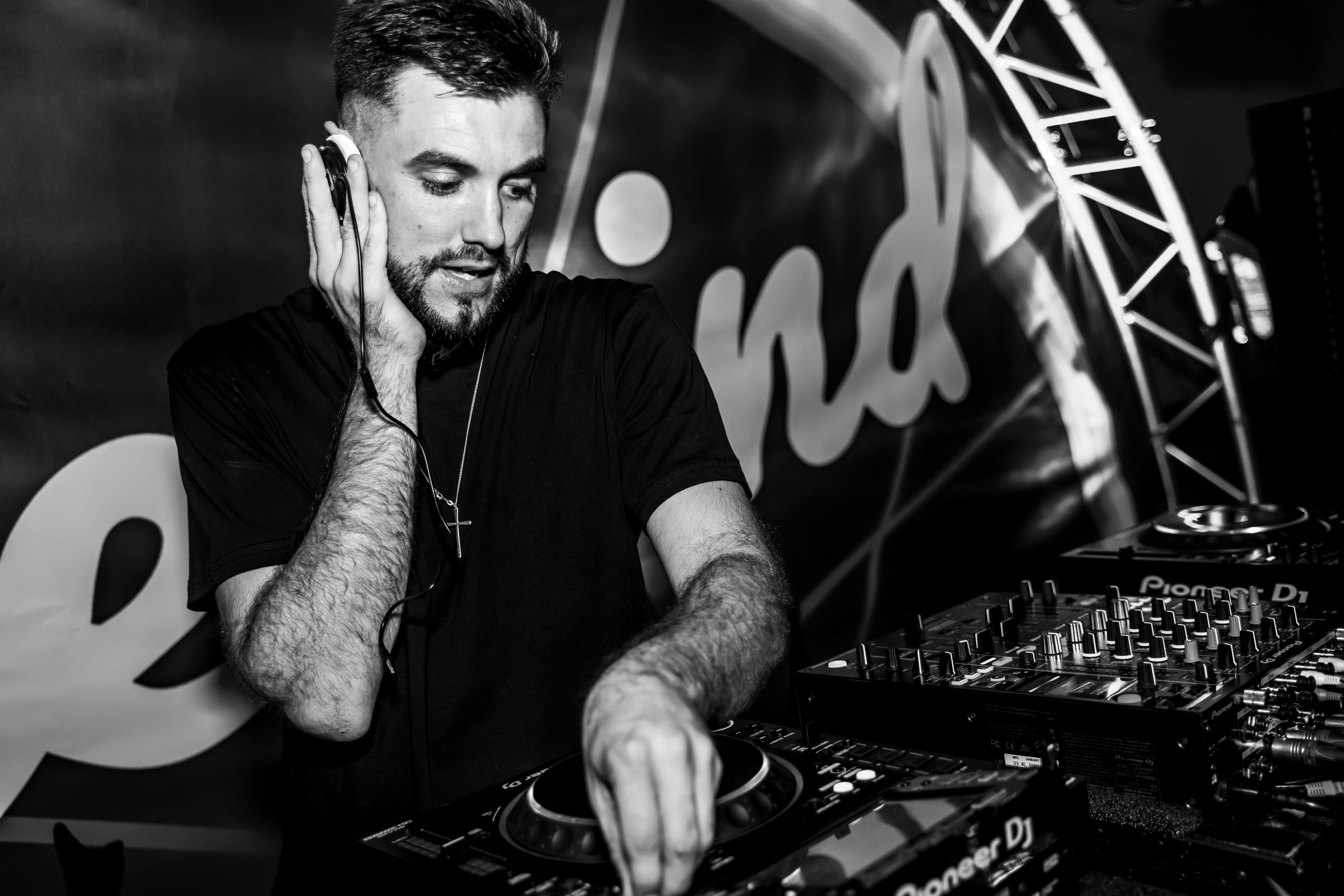 Ryan Swain.